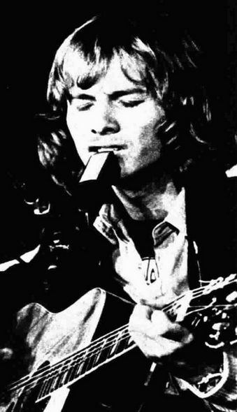 Italian singer Ron